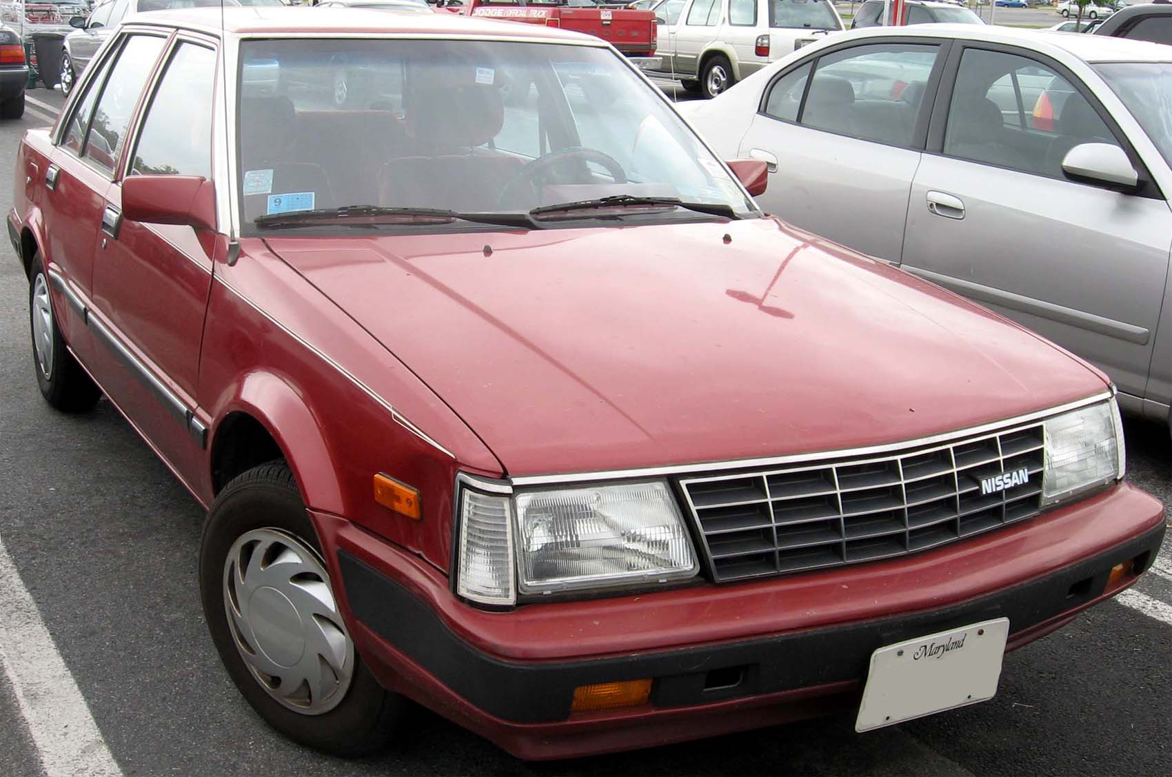 1985-1986 Nissan Stanza photographed in USA.